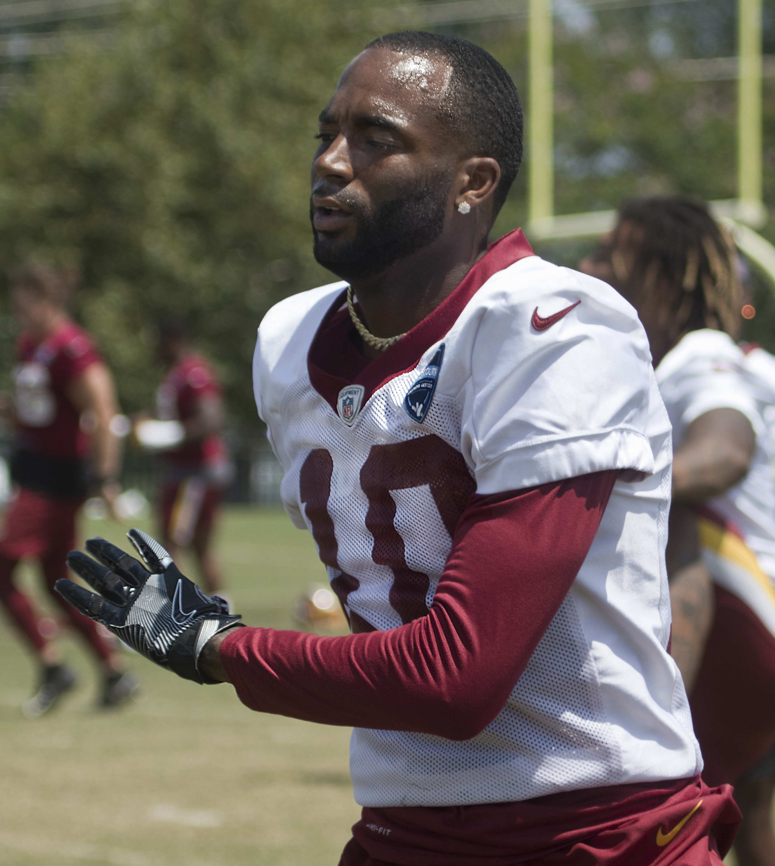 Washington Redskins wide receiver, Paul Richardson, at training camp on August 7, 2018